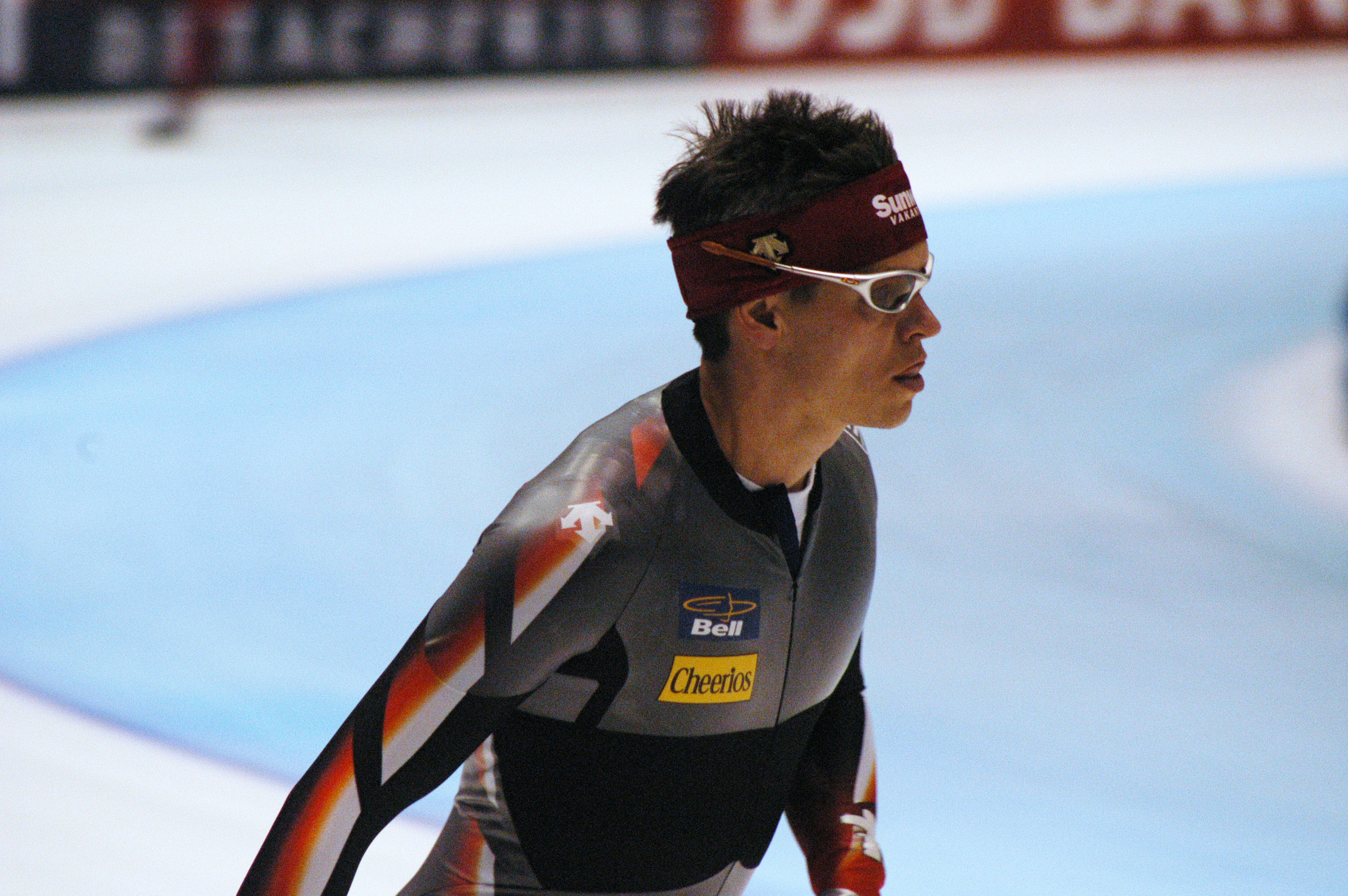 Mike Ireland (CAN) at a World Cup Speed Skating in Heerenveen, the Netherlands.